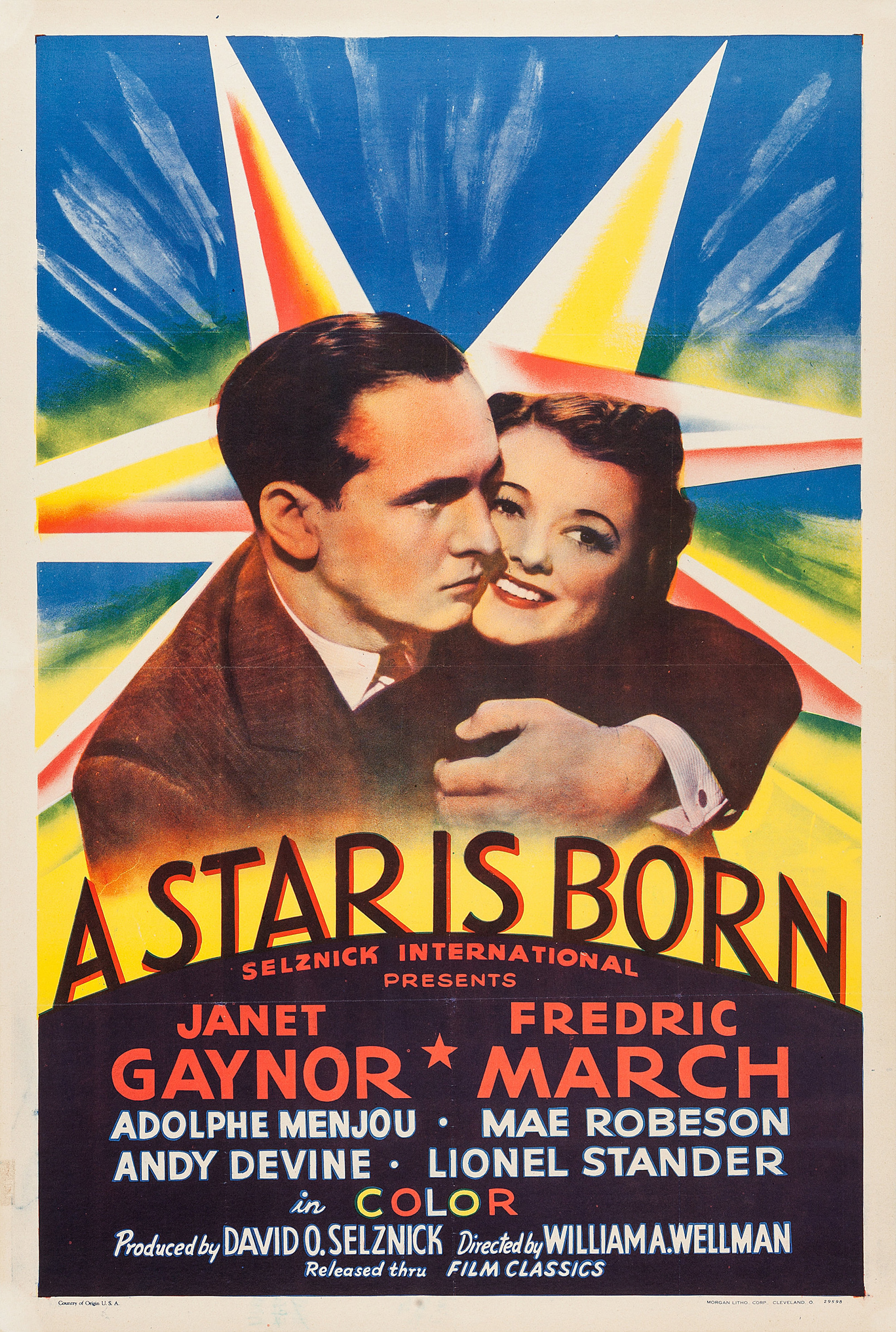 Poster for 1945 theatrical reissue of the 1937 film A Star Is Born.